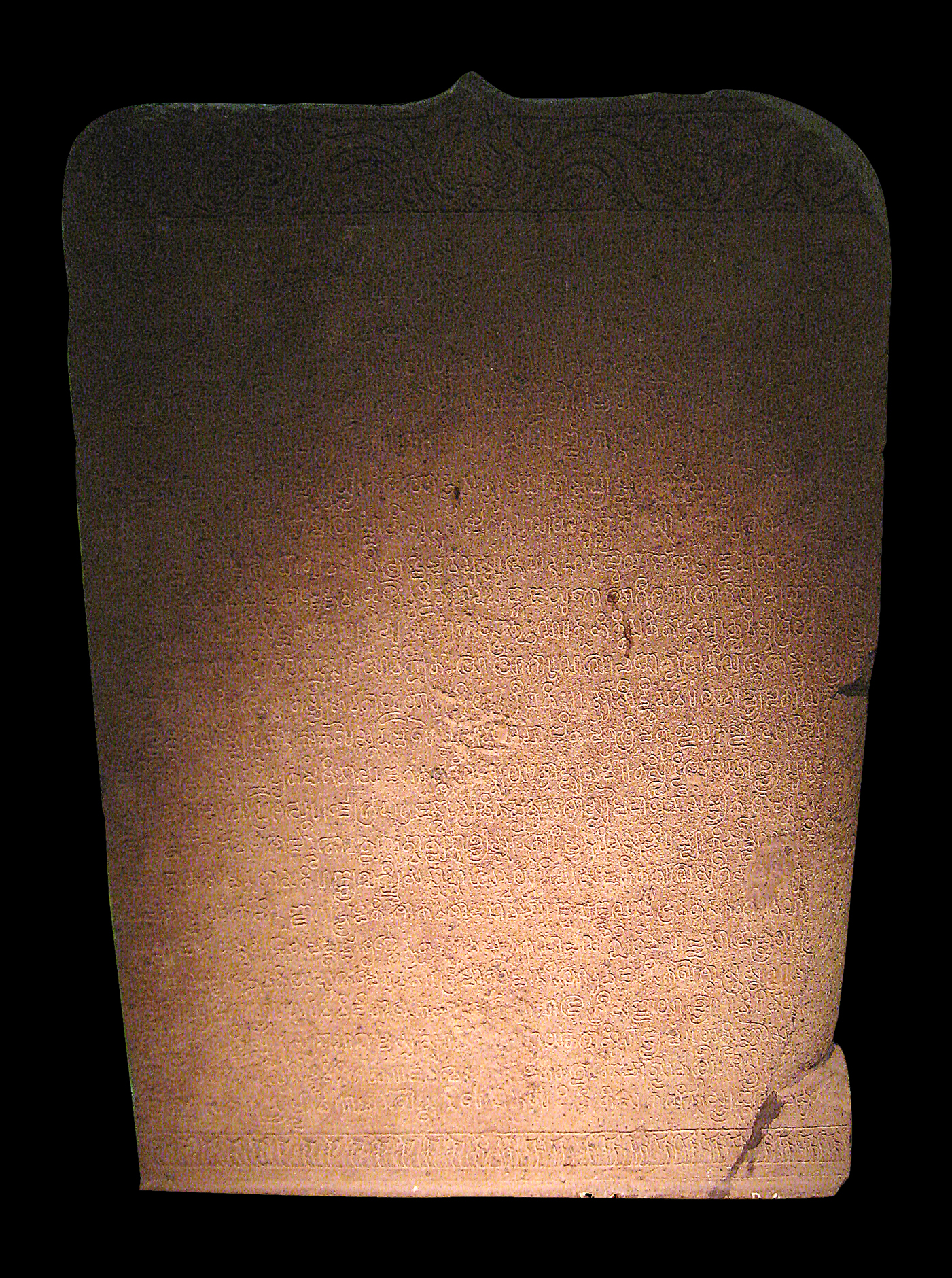 Ancient Javanese Canggal inscription dated 732 edicted by King Sanjaya of Medang i Bhumi Mataram kingdom. The inscription was discovered in Kadiluwih, Salam, Magelang Regency, Central Java. Collection of National Museum of Indonesia, Jakarta.